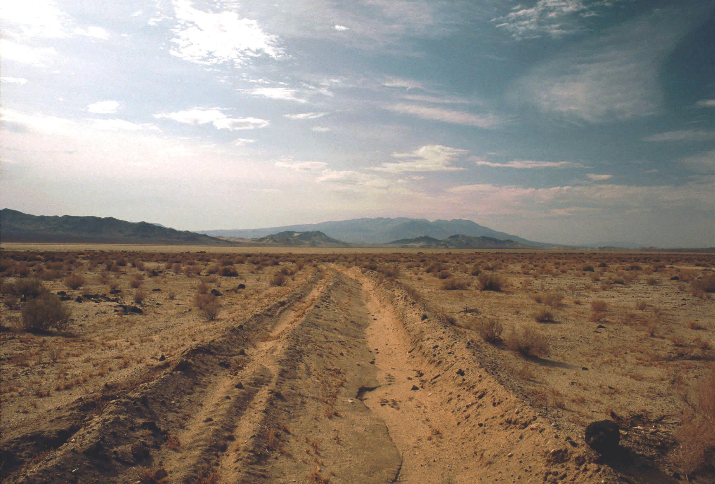 Death Valley,Desert,sand road mud near Shoshones